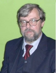 Miroslaw Chalubinski - polish socjologist